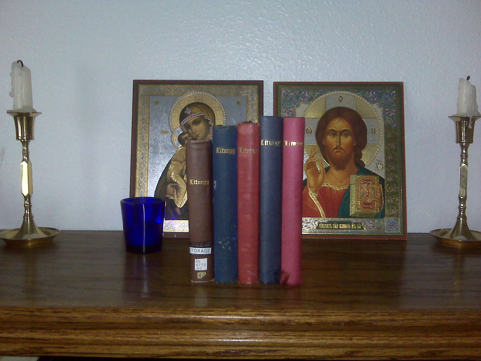 From Left to Right: 1st ed., 2nd ed., 3rd ed., 4th ed., 5th ed.